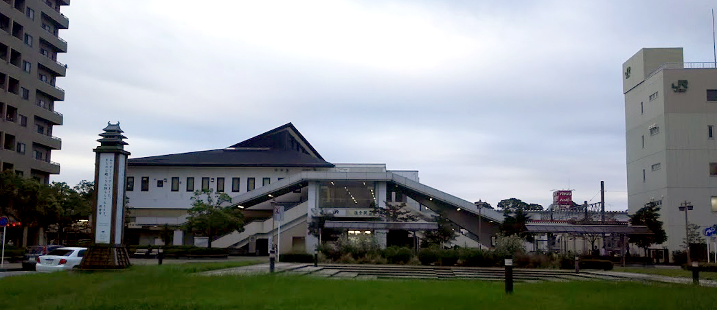 JR Sakura Sta. north side